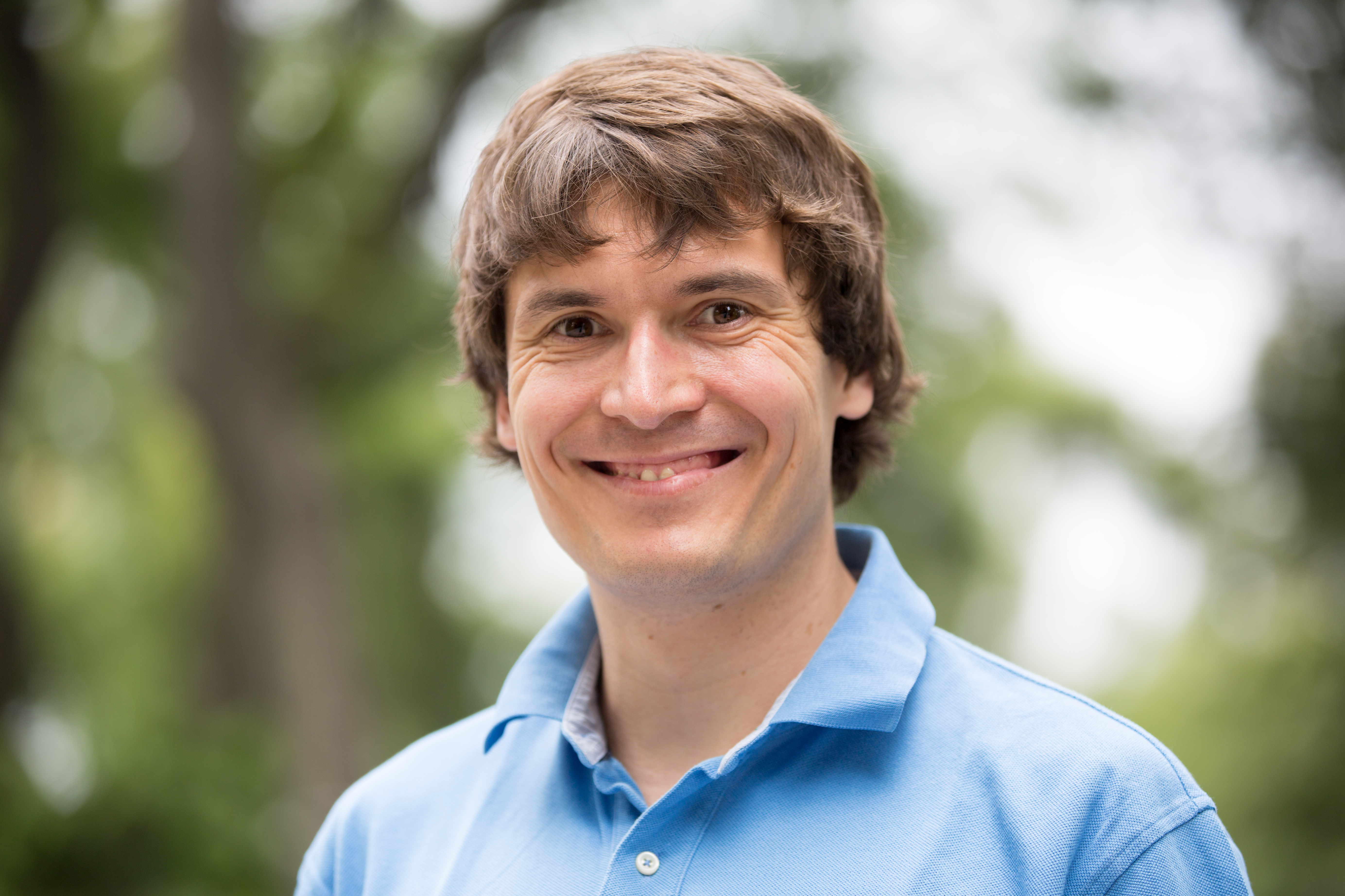 Dr. Dariusz Jemielniak - Wikimedia Foundation Board